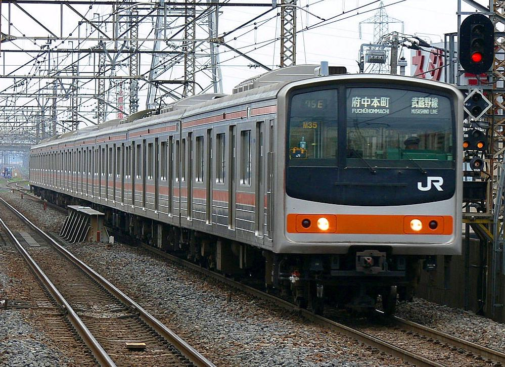 JR East 205 series EMU set M35 approaching Minami-Koshigaya Station on the Musashino Line